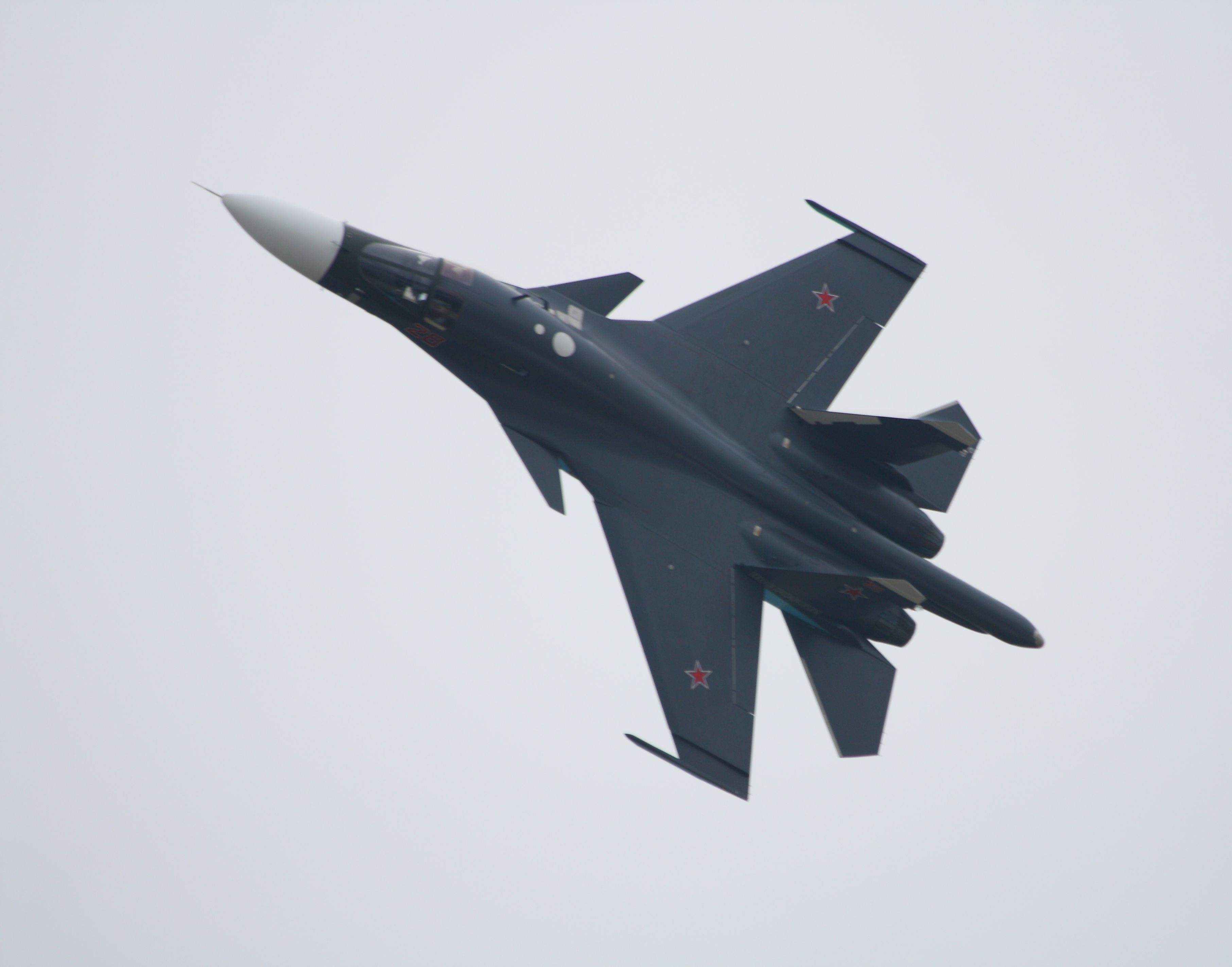 Fighter-bomber Sukhoi Su-34 Fullback (The international aerospace salon MAKS-2013)